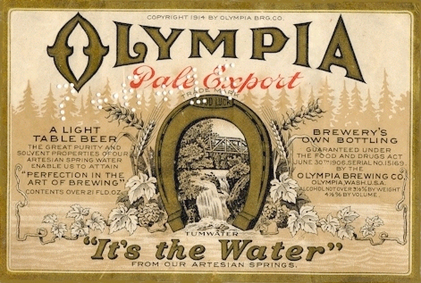 Olympia Pale Export beer label from 1914, The Olympia Brewing Company, Tumwater, Washington USA (defunct in 2003)